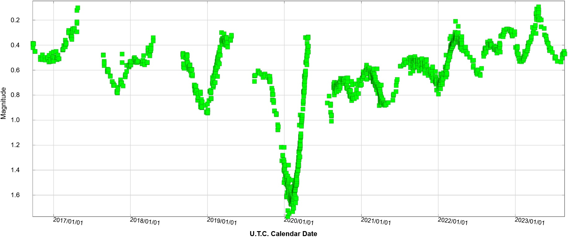 Available V-band magnitudes of Betelgeuse (Alpha Orionis) between September 2018 and August 2020